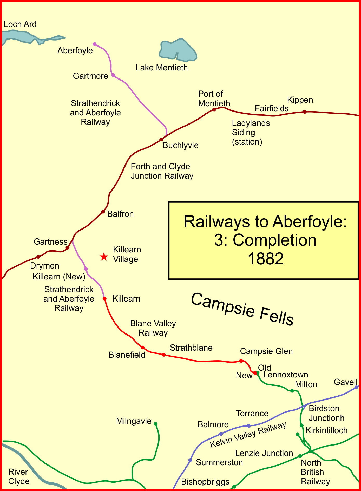 System map of the railway lines to Aberfoyle, Scotland, in 1882